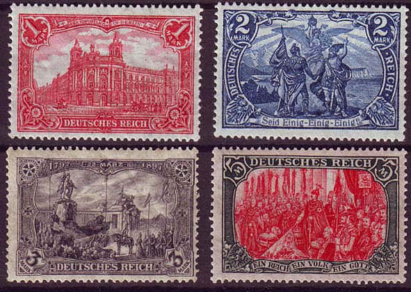 Germania postage stamps of German empire with high volumes, 1, 2, 3, 5 DM, 1902